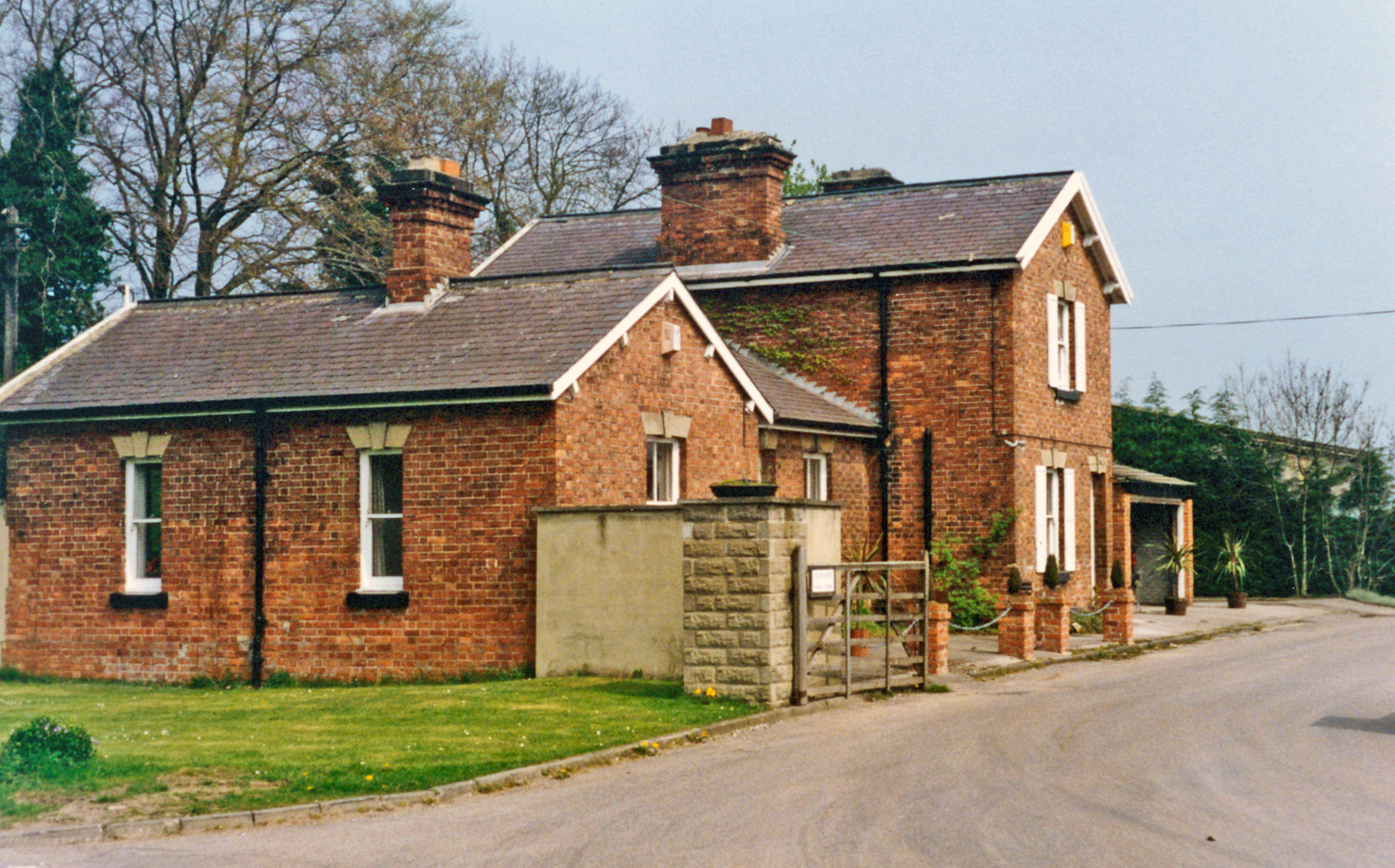 Tanfield: former railway station, 1995. View eastward, towards Melmerby: ex-NER Melmerby - Masham branch. The station and branch closed to passengers 1/1/31, but remained open for goods until 11/11/63.